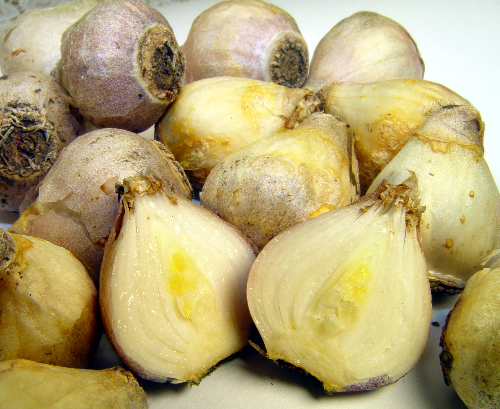 Scilla siberica alba bulbs